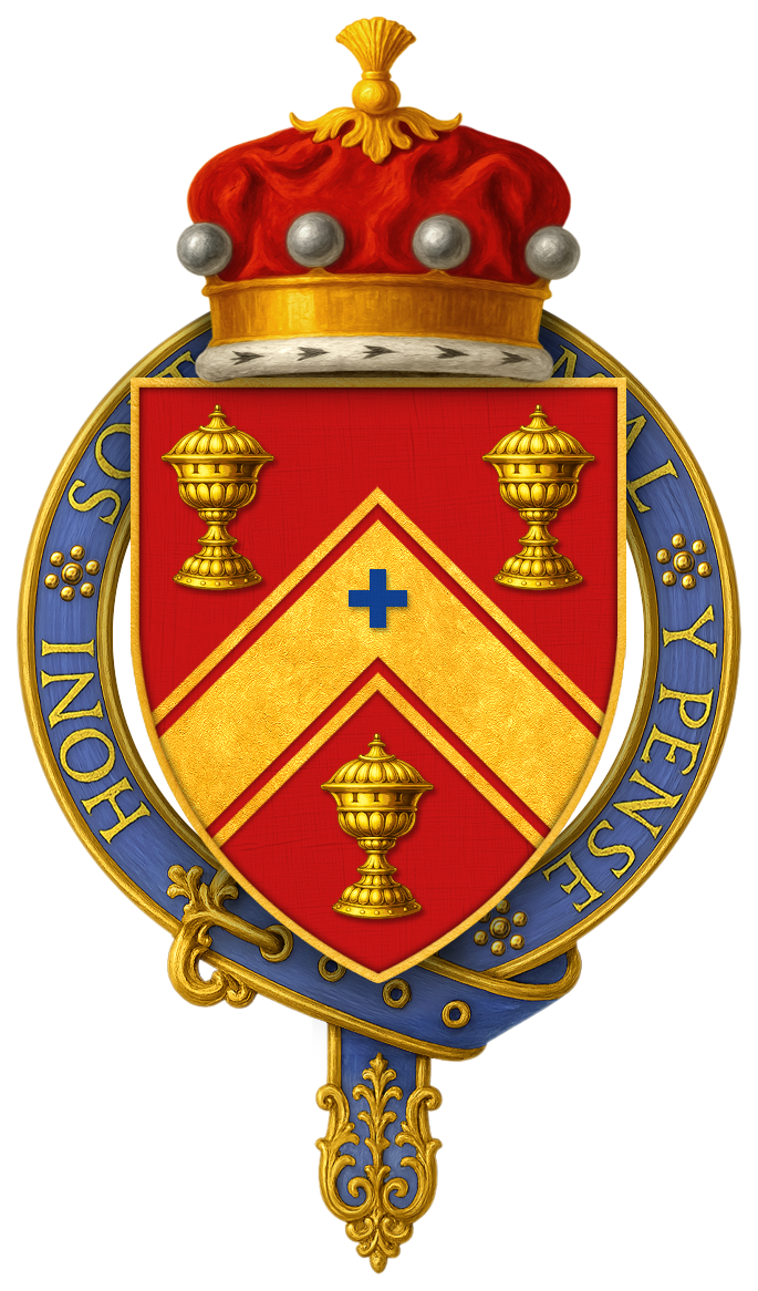 Coat of Arms of Richard Austen Butler, Baron Butler of Saffron Walden, KG, CH, PC, DL